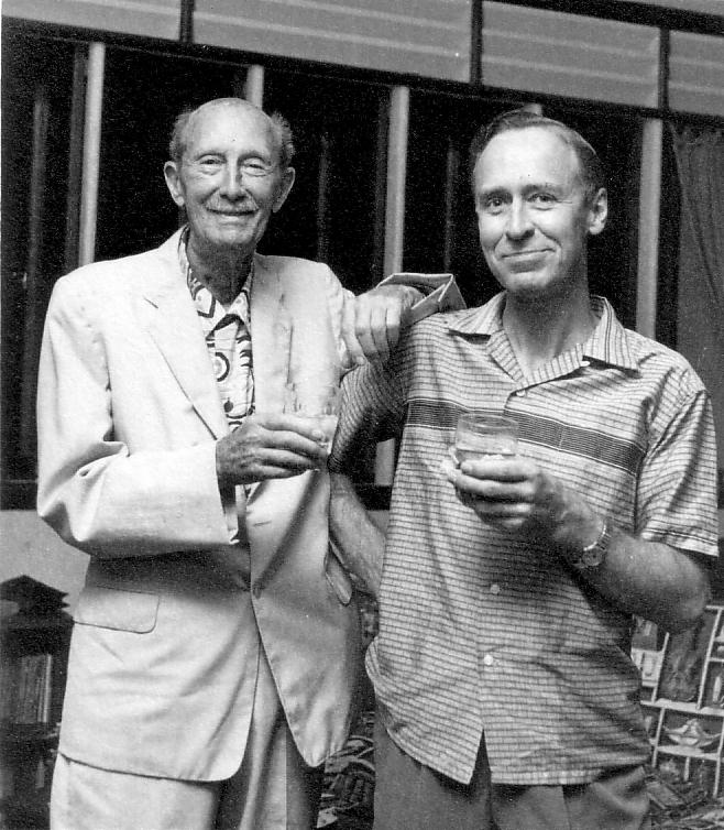 I or my mother (I can't remember which - we passed the camera back and forth) took this photo of Dr. Beebe and my father, Dr. A. E. "Ted" Hill at Simla, Trinidad in 1959. I have inherited the family photos.